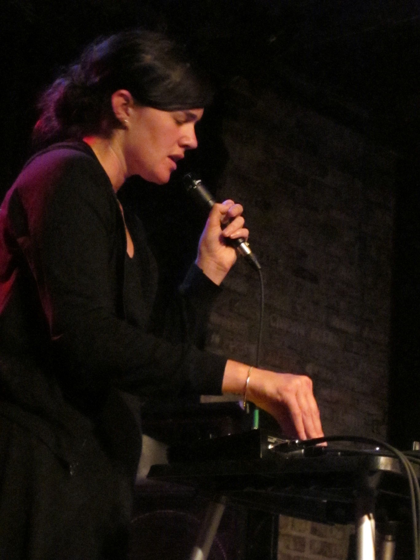 Julianna Barwick, photographed in May 2010 at Great Scott, Allston, MA, USA